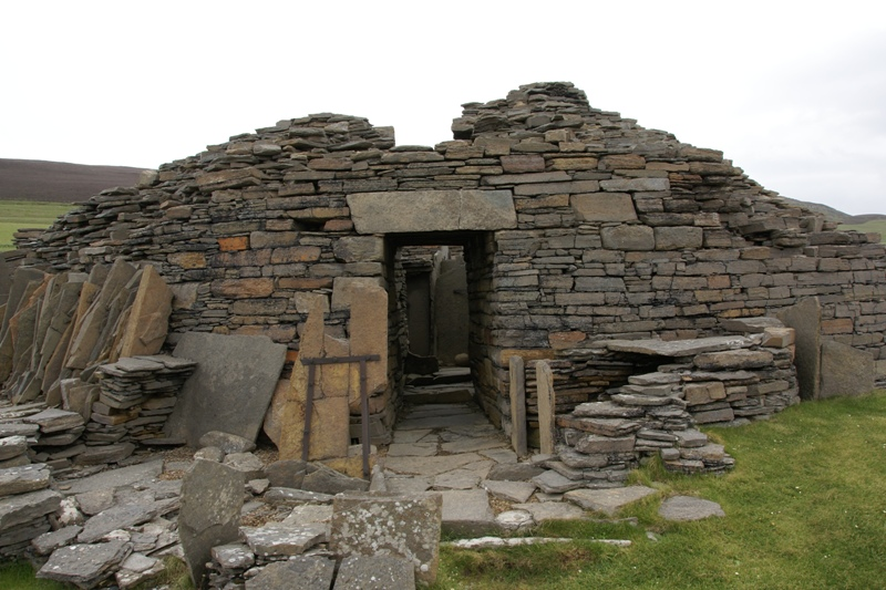 Midhowe Broch, Rousay, Orkney, Scotland - entrance